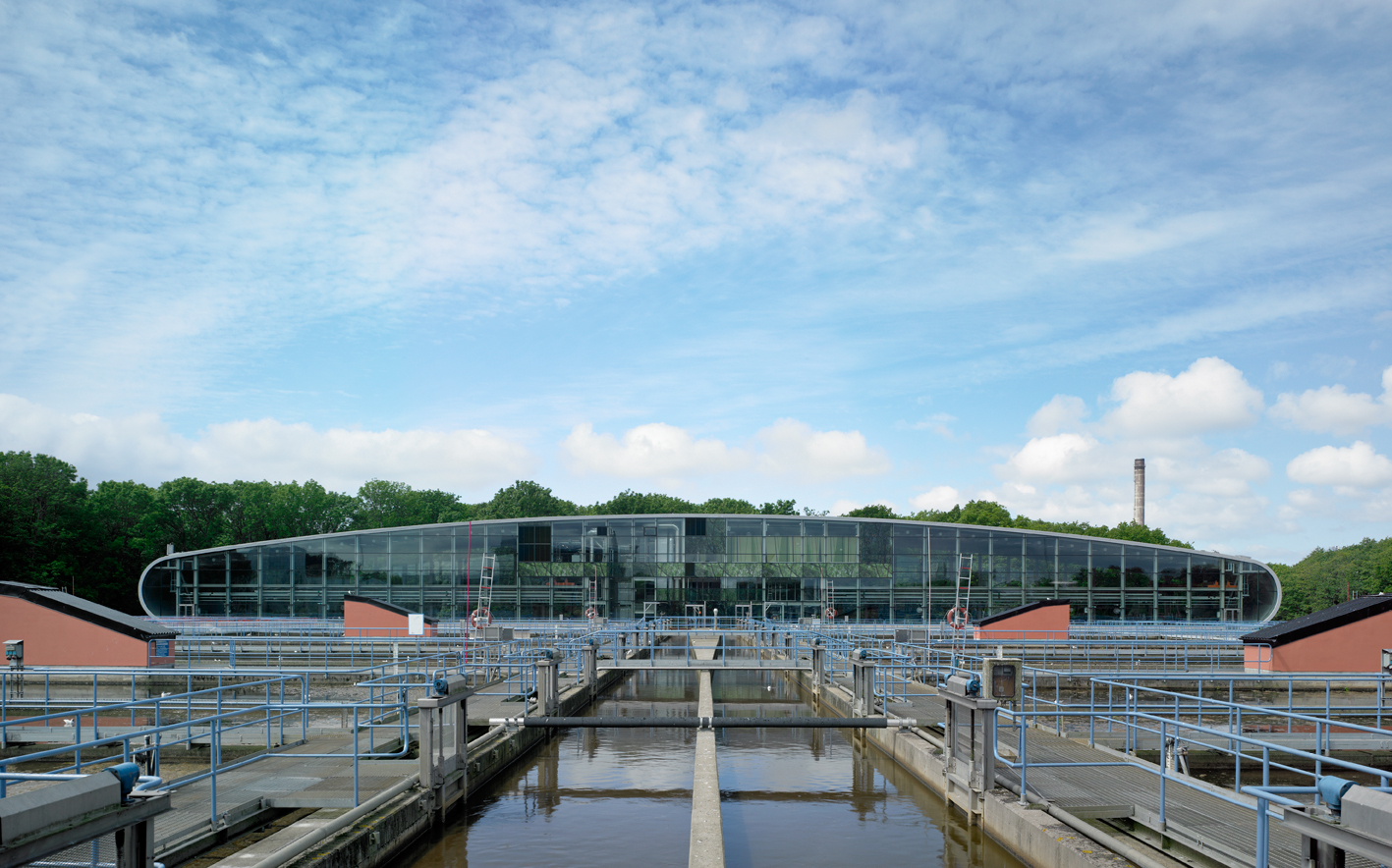 A waste water treatment plant in Gothenburg Sweden by KUB architects.